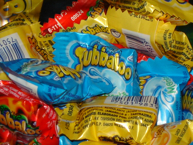 Bubbaloos